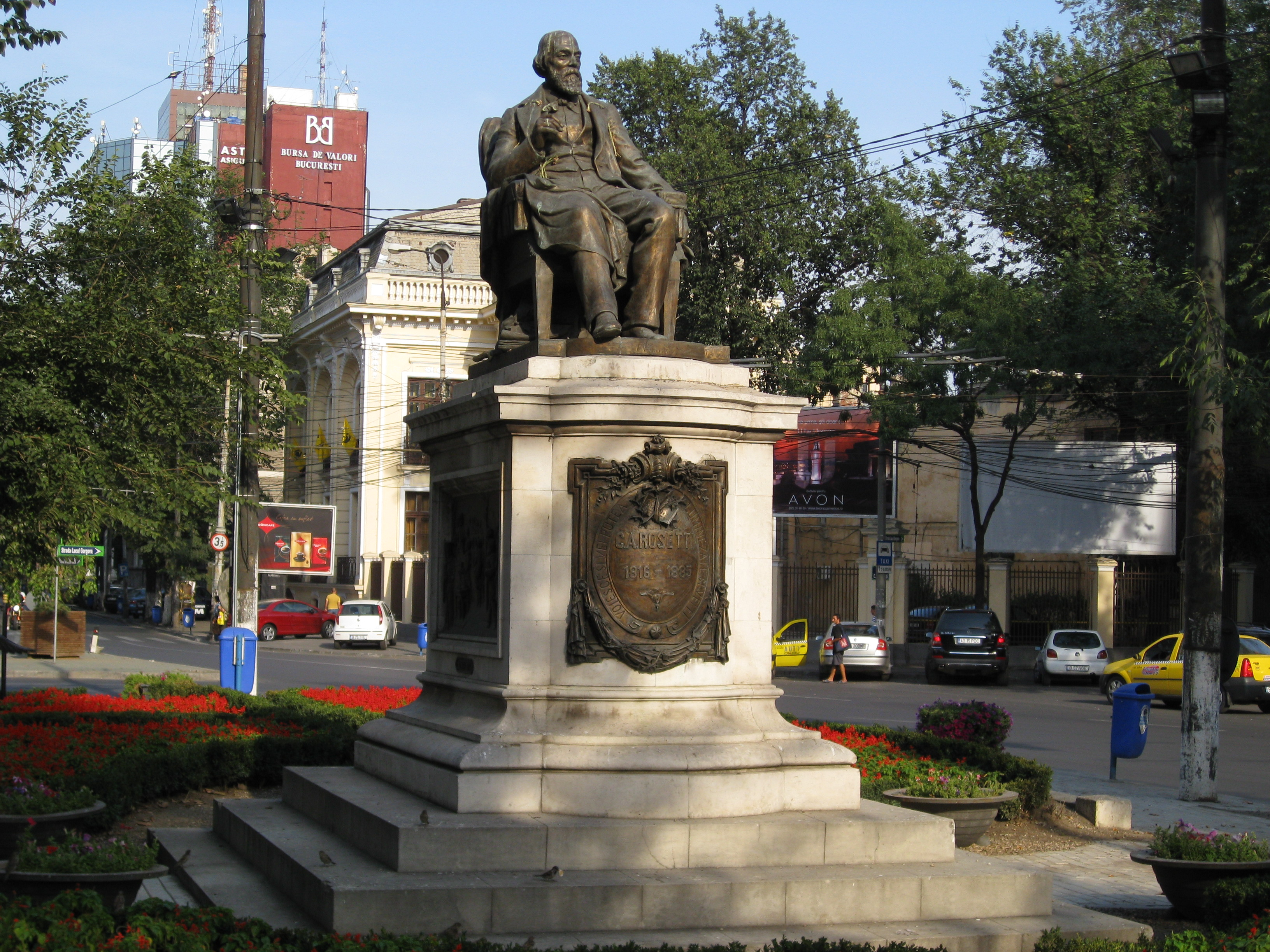 Sculpture of C. A. Rosetti in Bucharest, Romania